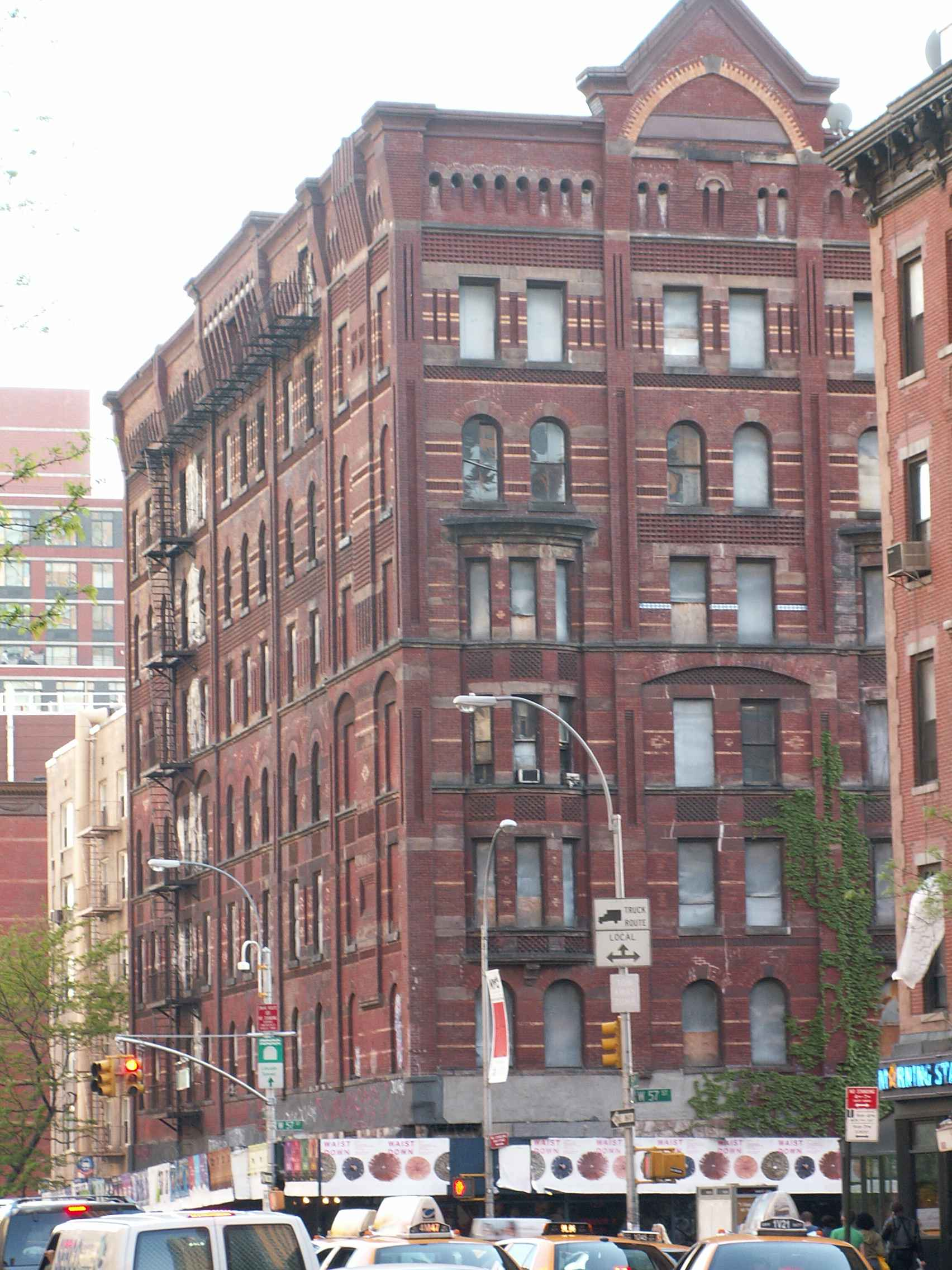 Windermere Apartment at 57th and Ninth in New York. NYCLPC designation 2005